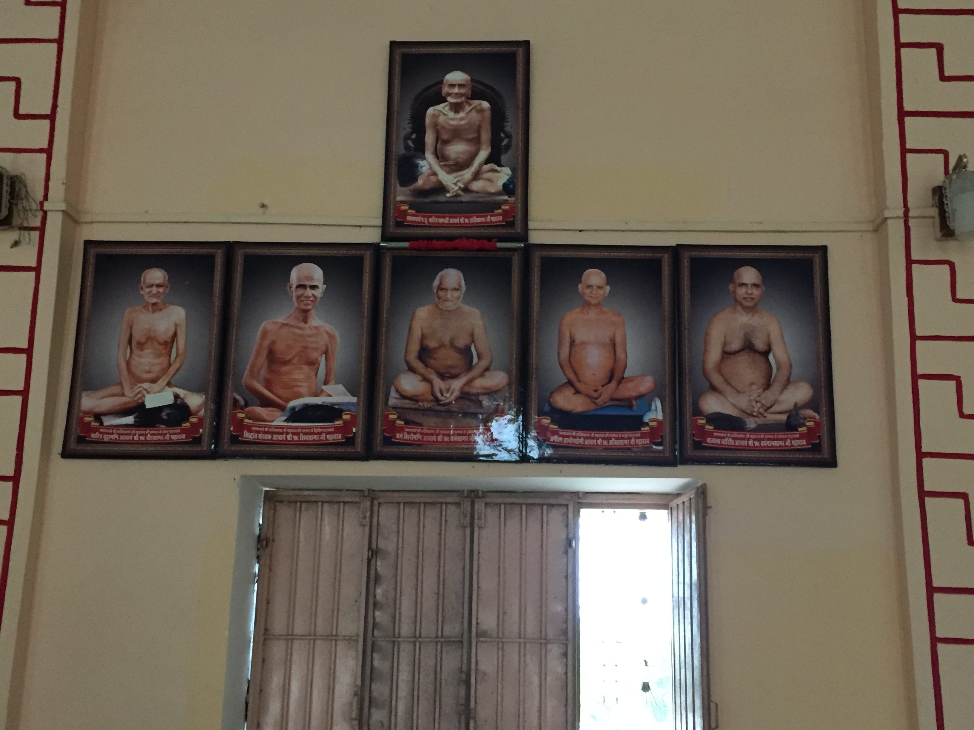 Jain Acharya Parampara from Acharya Shantisagarji